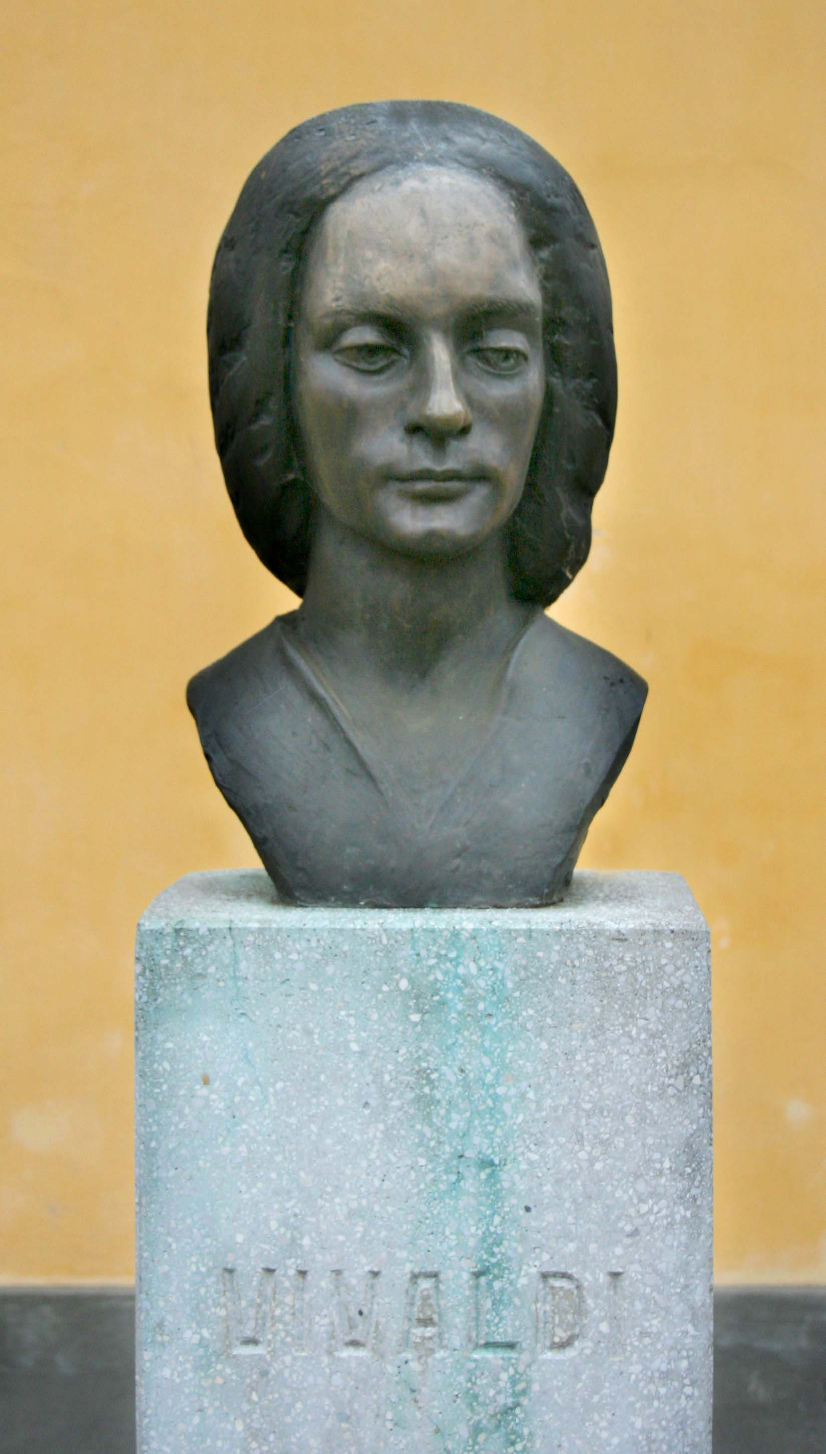 Vivaldi sculpture, Hungarian city, Sarospatak